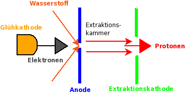 schematic diagram of a proton source